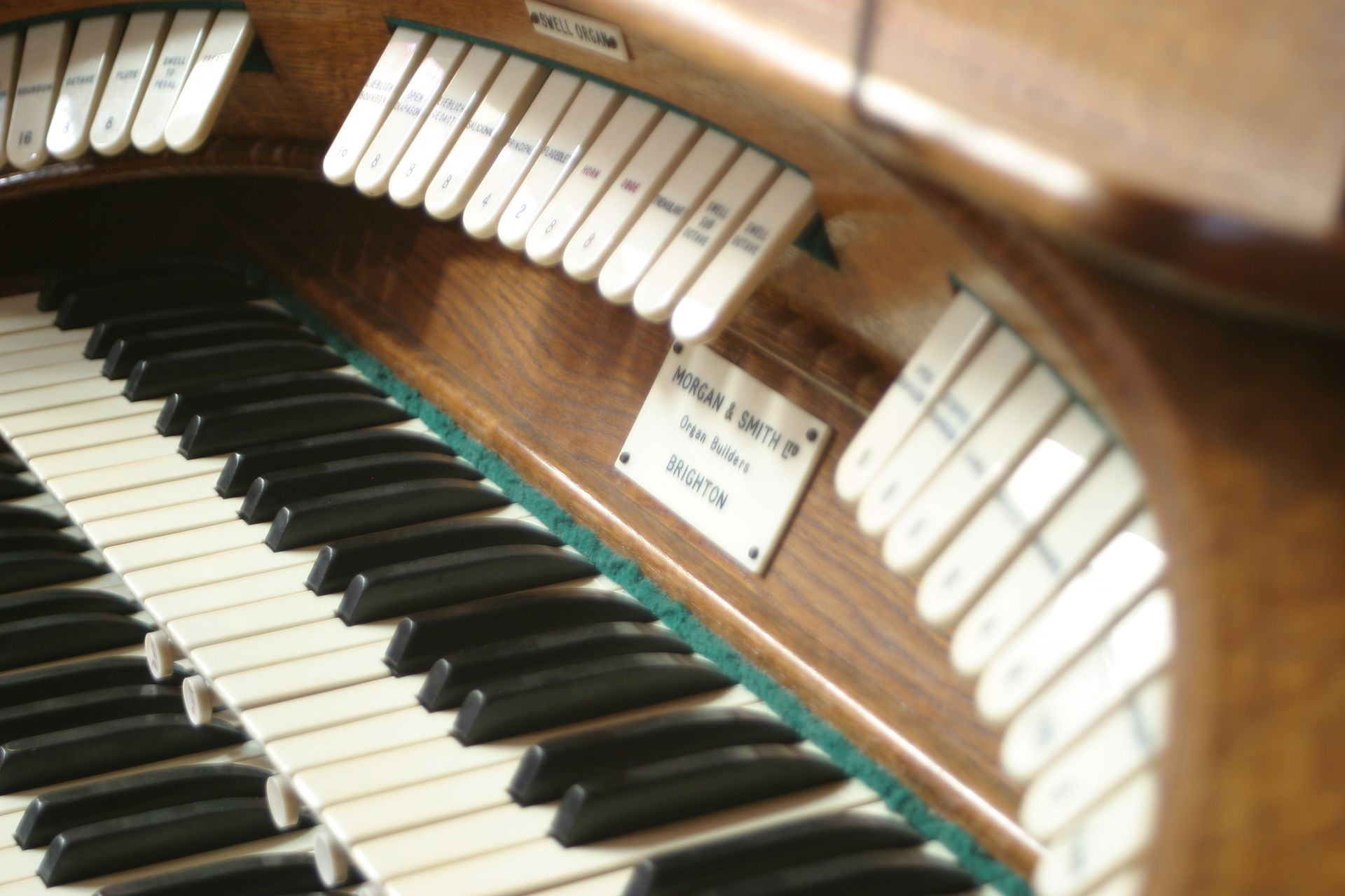 Robertson Street Congregational Church Forster & Andrews organ console